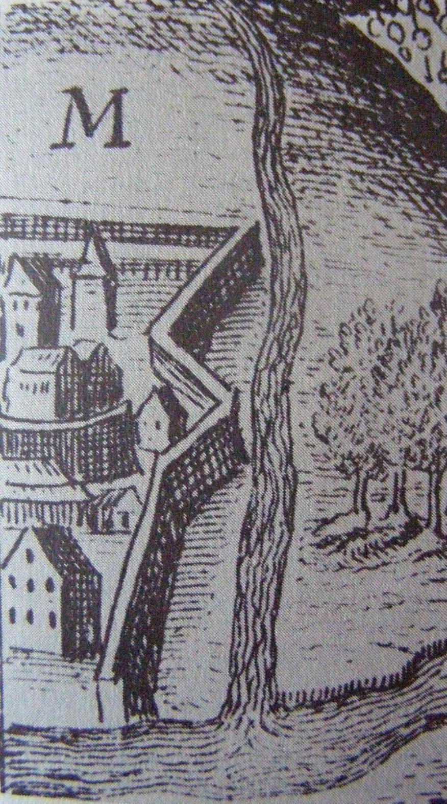 The cutting of Szentgotthárd (detail)